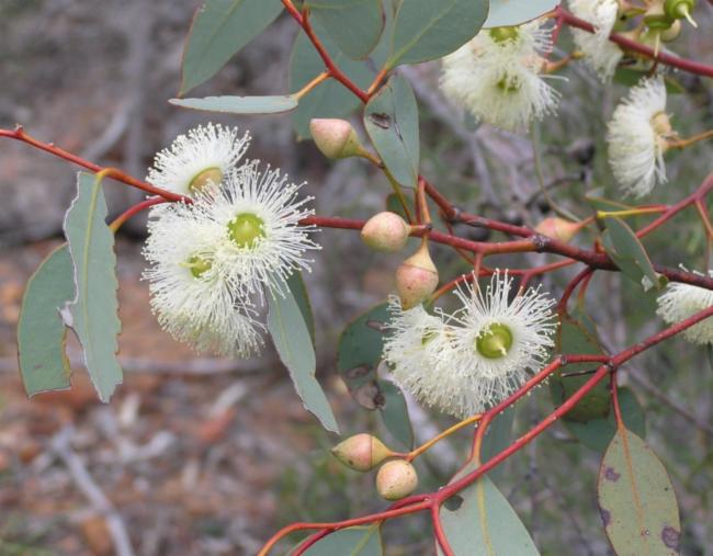 Buds and flowers of Eucalyptus ewartiana near Boyagin Rd, West Pingelly, Western Australia